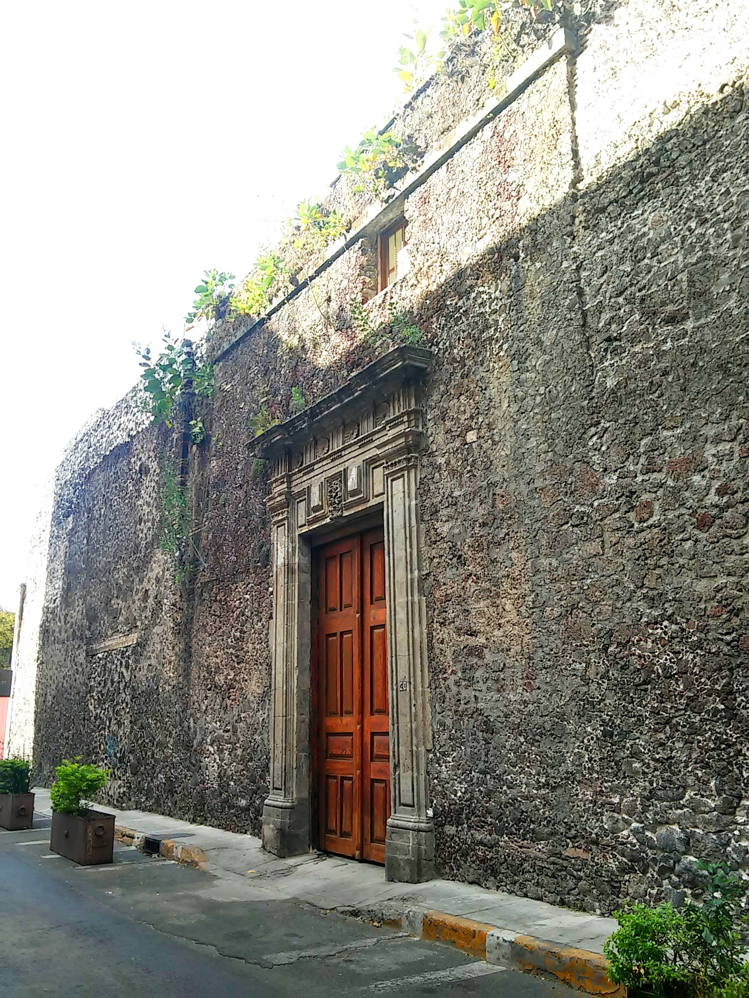 Portería del convento de Regina Coeli sobre la calle San Jerónimo